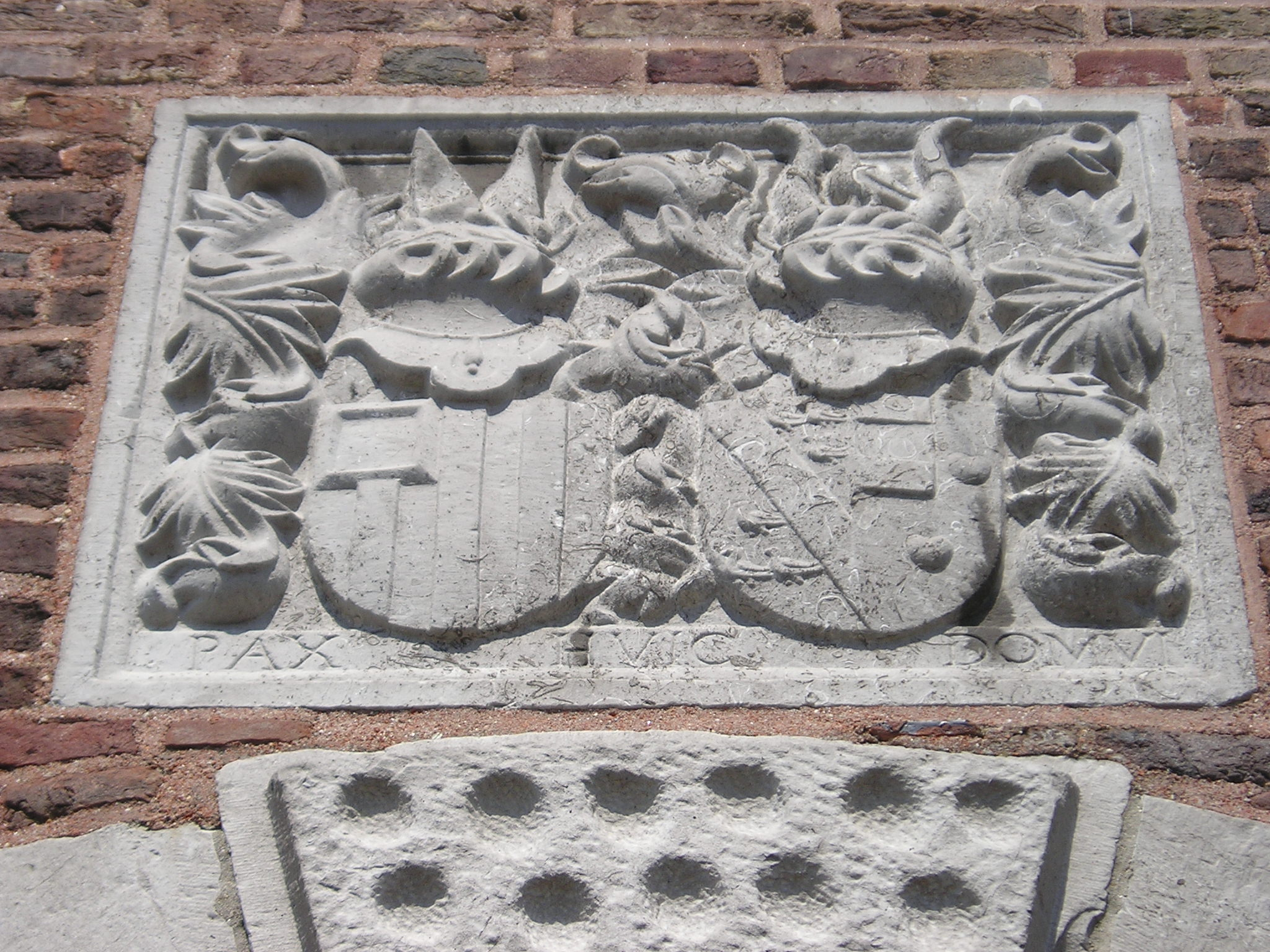 Family crests of the families Van Breyll (left) and Van Eynatten (right) in Castle Limbricht (Netherlands)